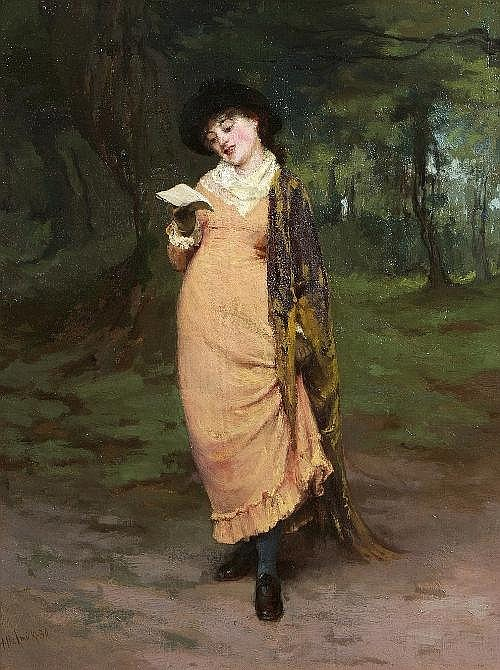 A painting by Howard Helmick